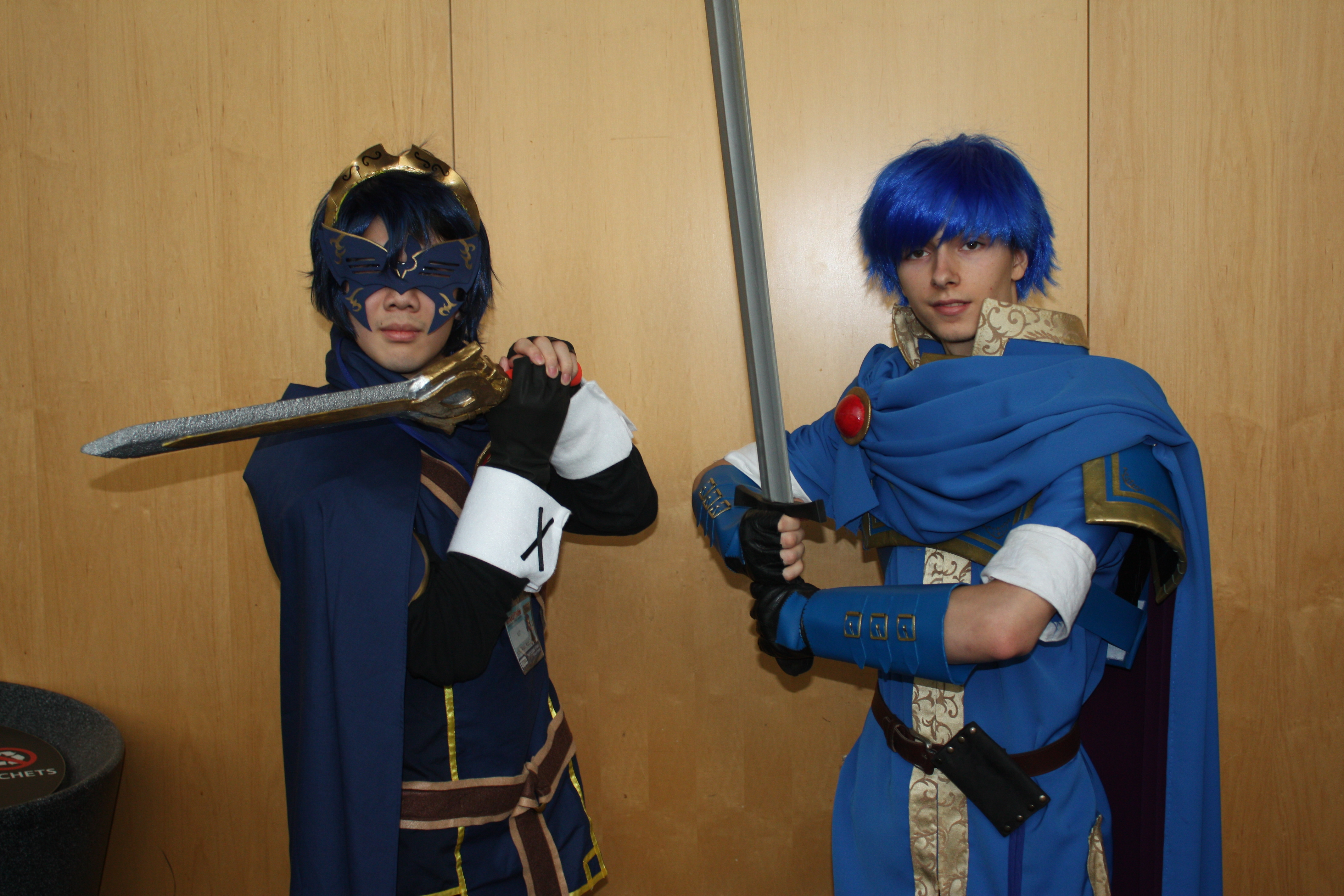 Otakuthon 2014: Lucina and Marth